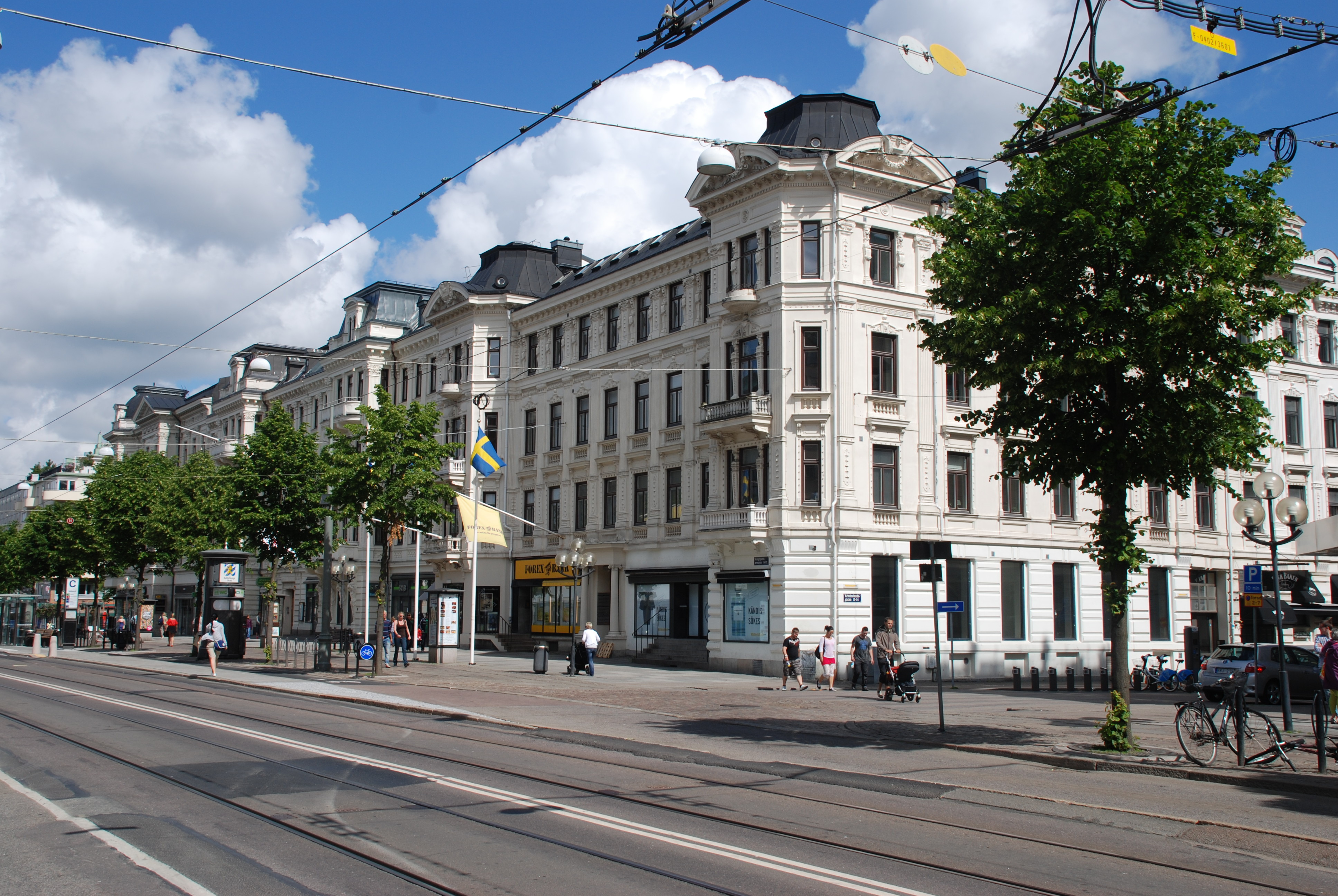 Kungsportsavenyn 22, quarter 53 Örup in city part Lorensberg in Göteborg.